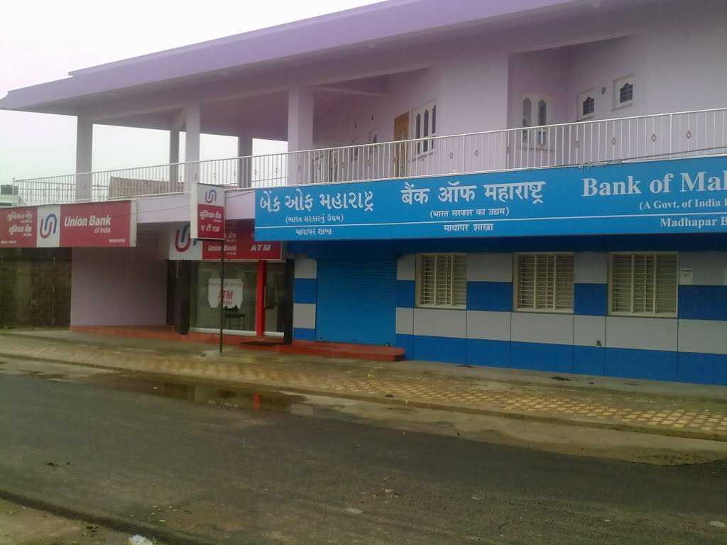 Banks at Madahapr